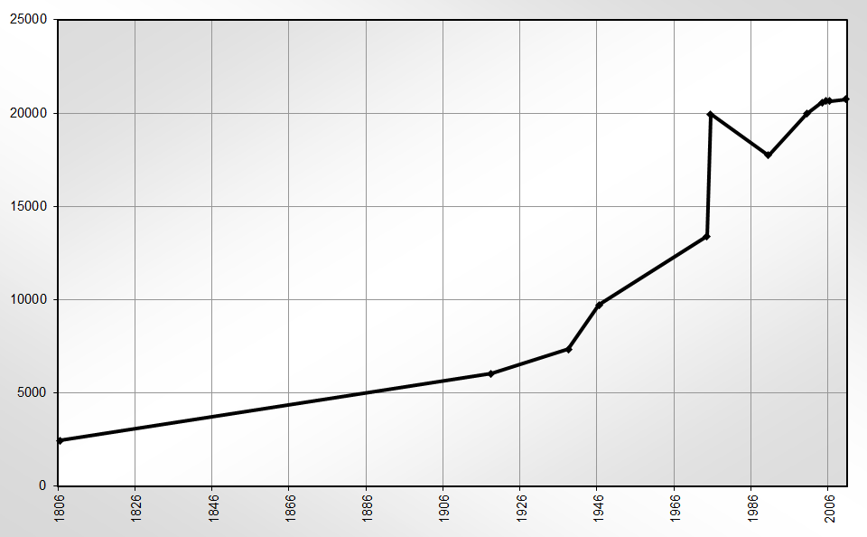 Population development of Geseke (1806-2010)